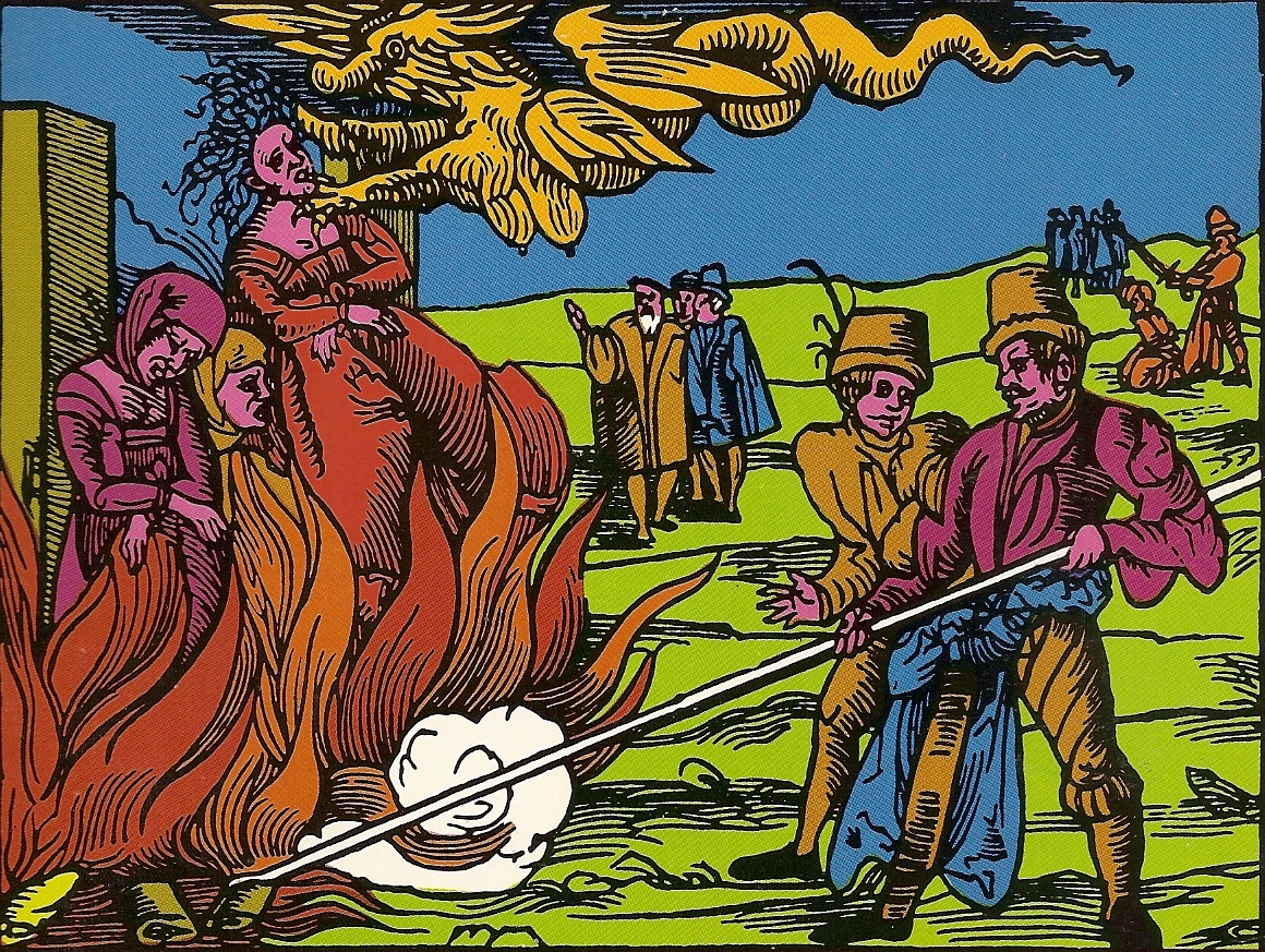 Execution by burning (witches), for example used at Montague Summers Malleus Maleficarum (1971) - nachkoloriert